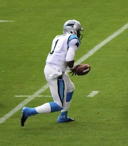 Cropped photo showing Cam Newton's first play from scrimmage as a NFL player, a handoff to running back DeAngelo Williams. Carolina Panthers vs Arizona Cardinals